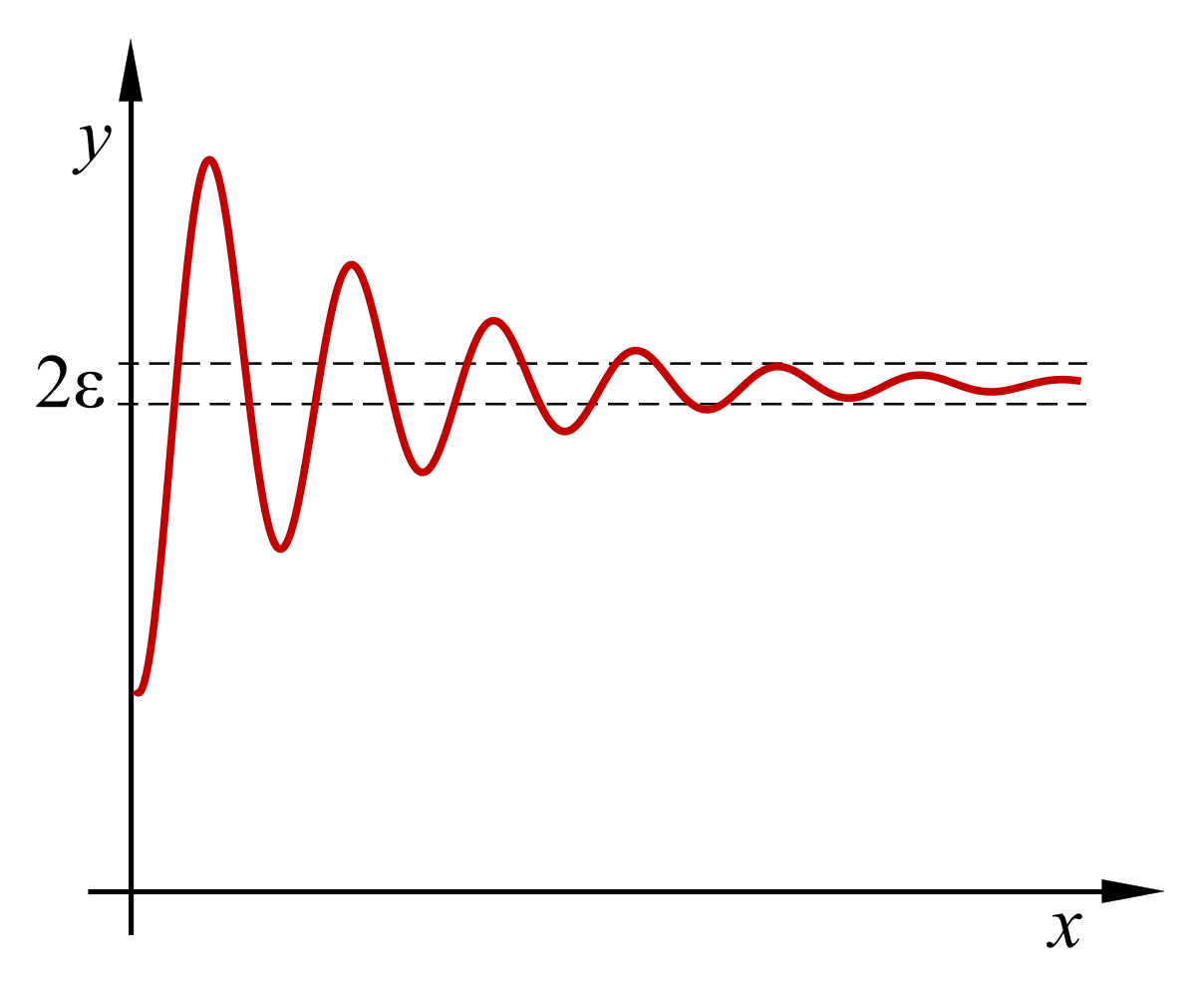 Damped Pulse